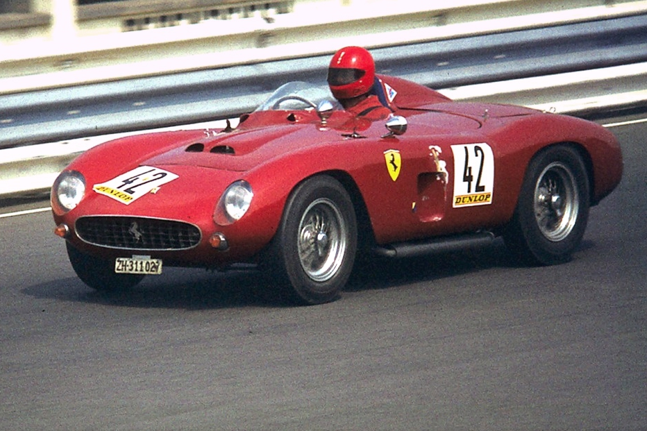 1955 Ferrari 750 Monza s/n 0518M by Scaglietti at the Nürburgrings (Oldtimer-GP des AvD) on August 15–16, 1981.[1]